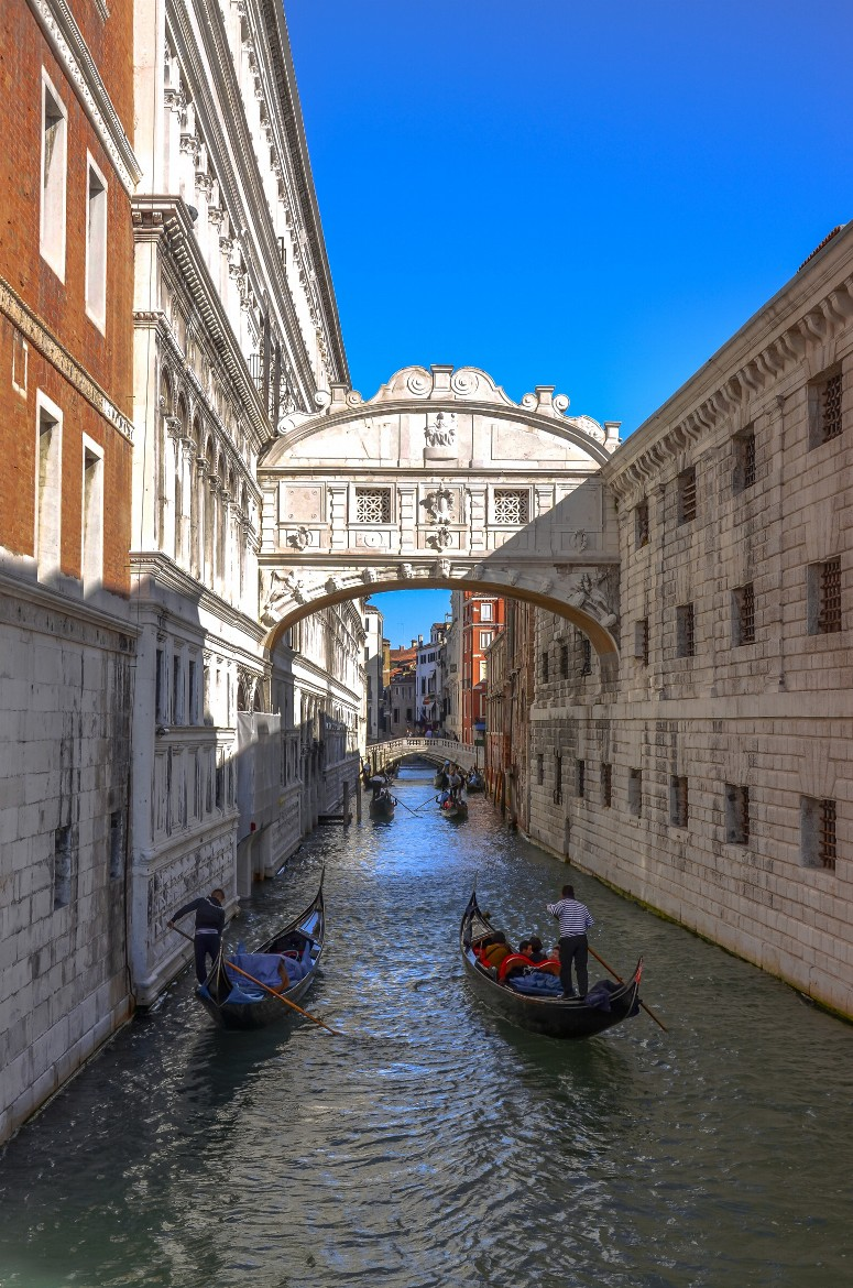 Bridge of Sighs, Venice